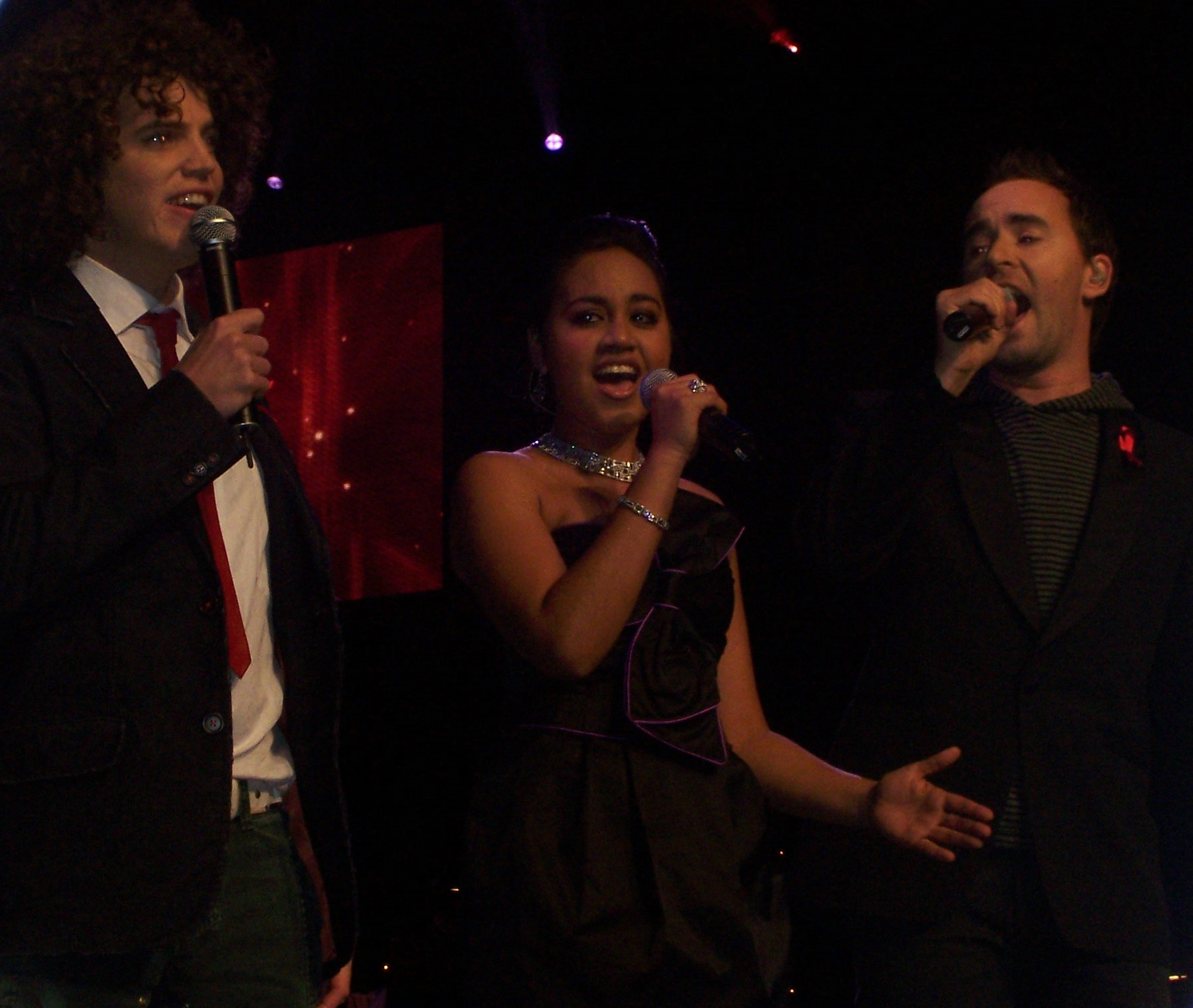 Bobby Flynn, Jessica Mauboy and Damian Leith, the 3 finalists of Australian Idol 2006